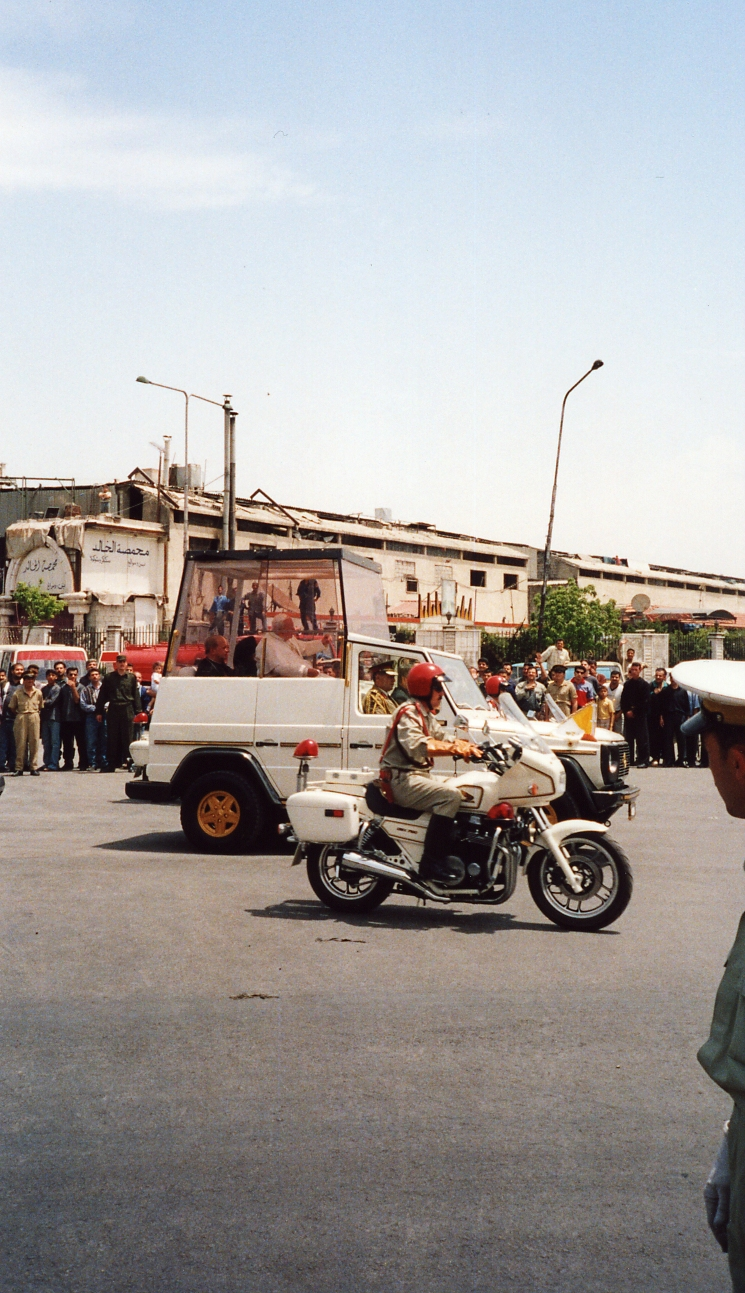 Pope John Paul II passing through Christian neighbourhood of Damascus, Syria, after public meeting at Teshreen International Stadium. Photo taken in 2001.